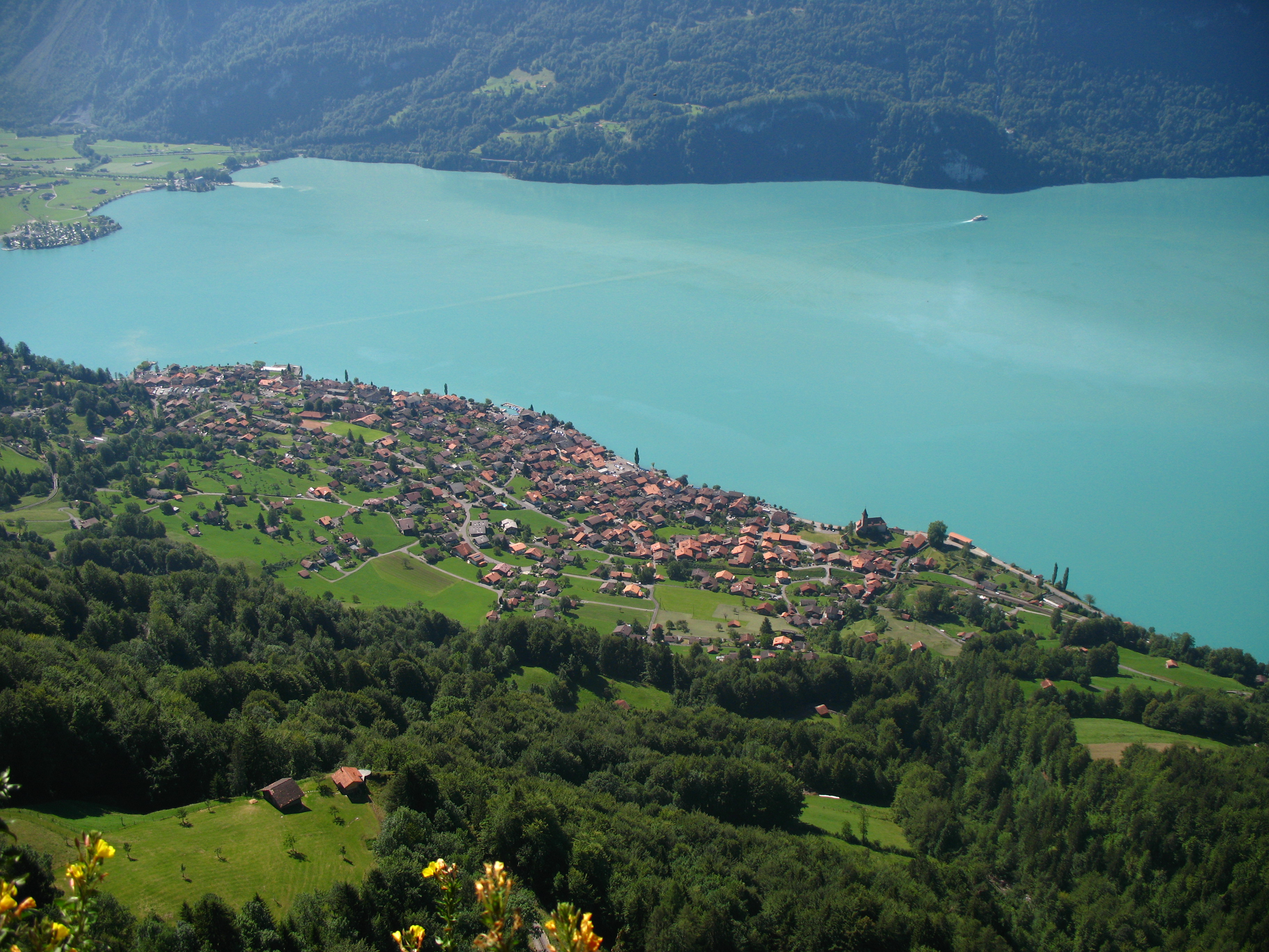 Brienz viewed from the Brienz Rothorn Bahn (BRB), Switzerland